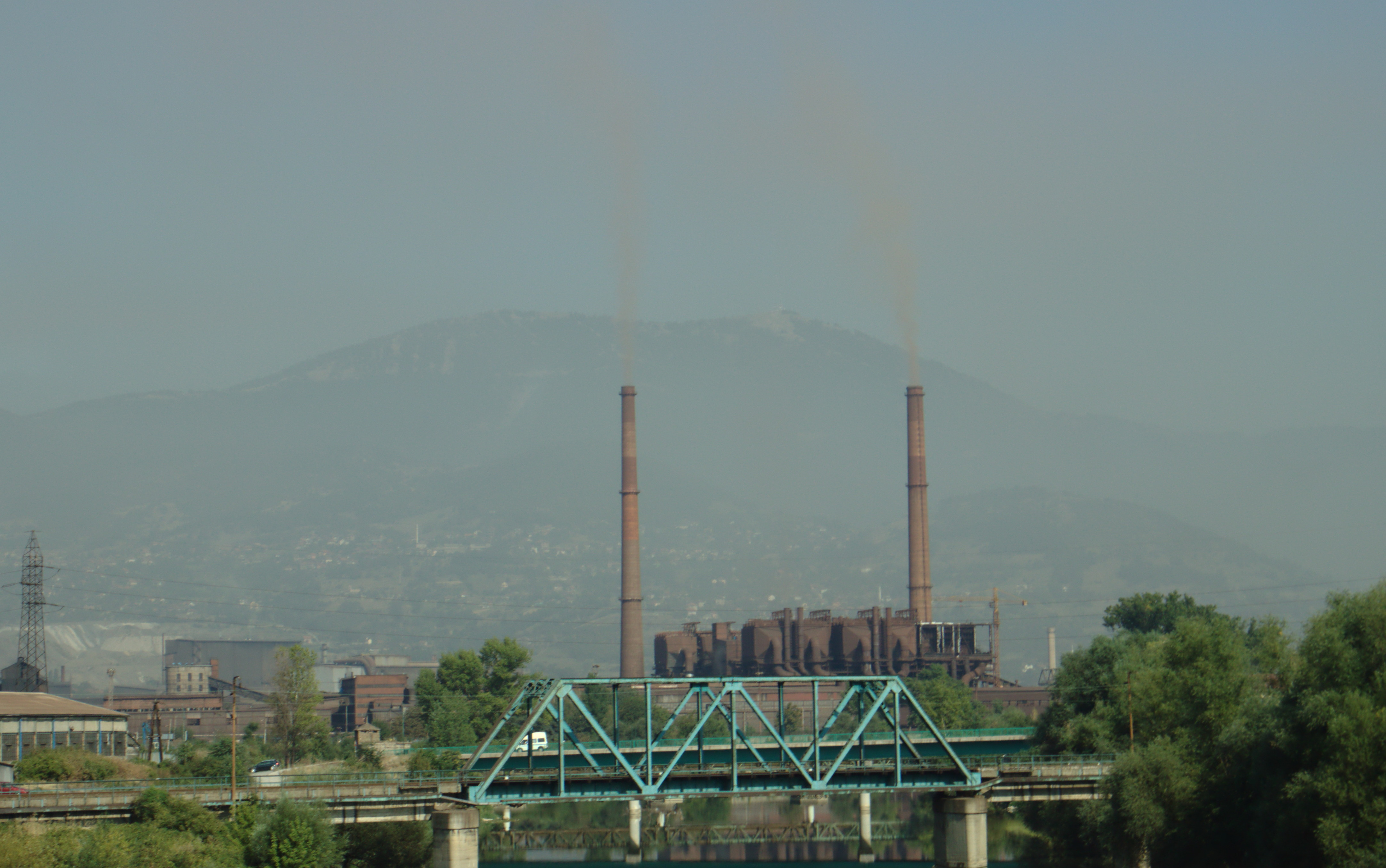 Steel Mill in Zenica, Bosnia and Herzegovina